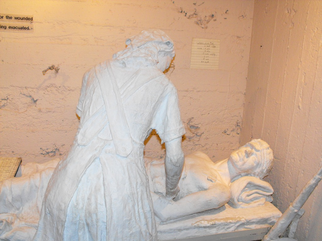 Geography of Israel